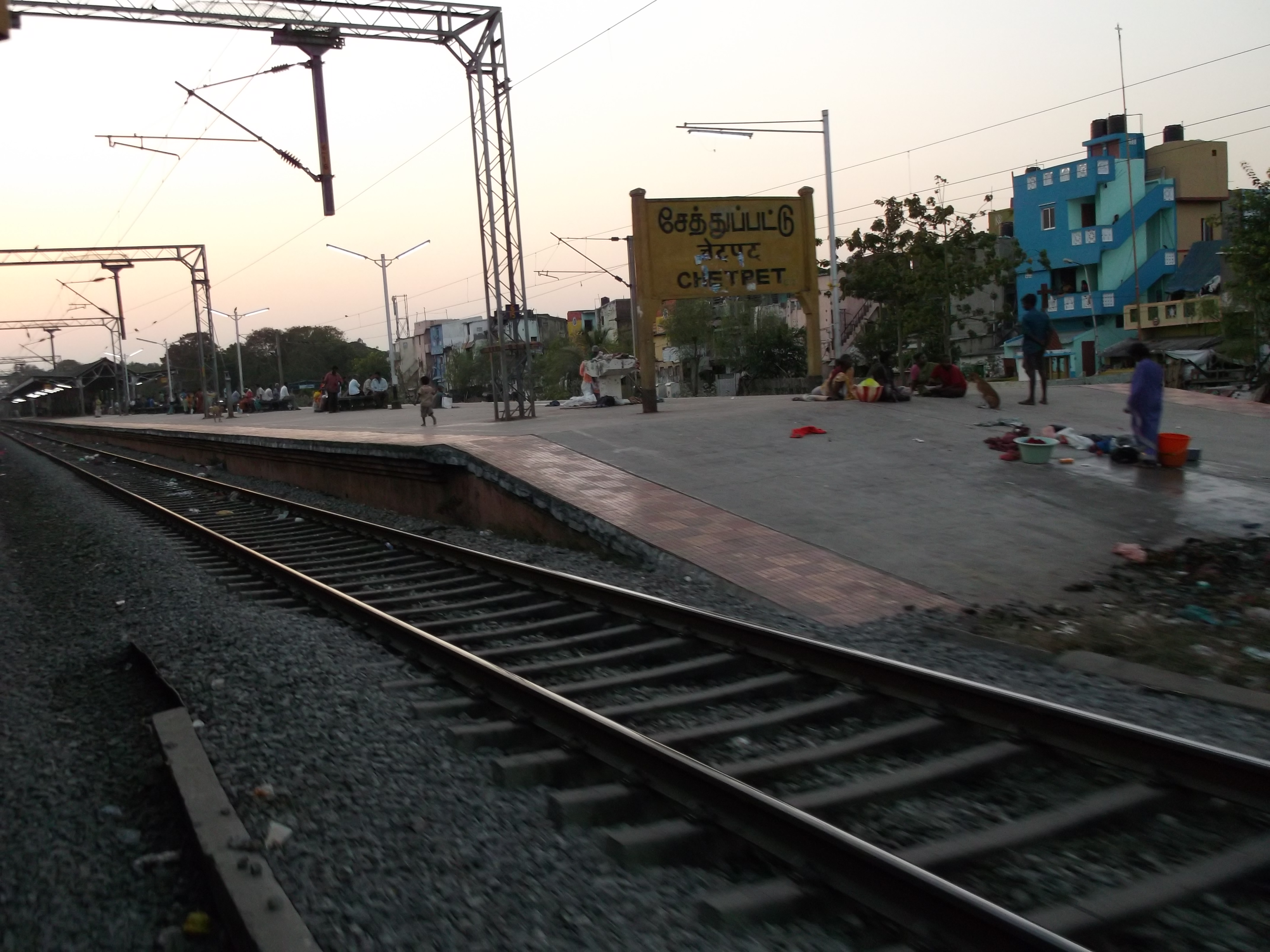 Chetput railway station, taken on 27-Jan-2013 at 6:00 pm.